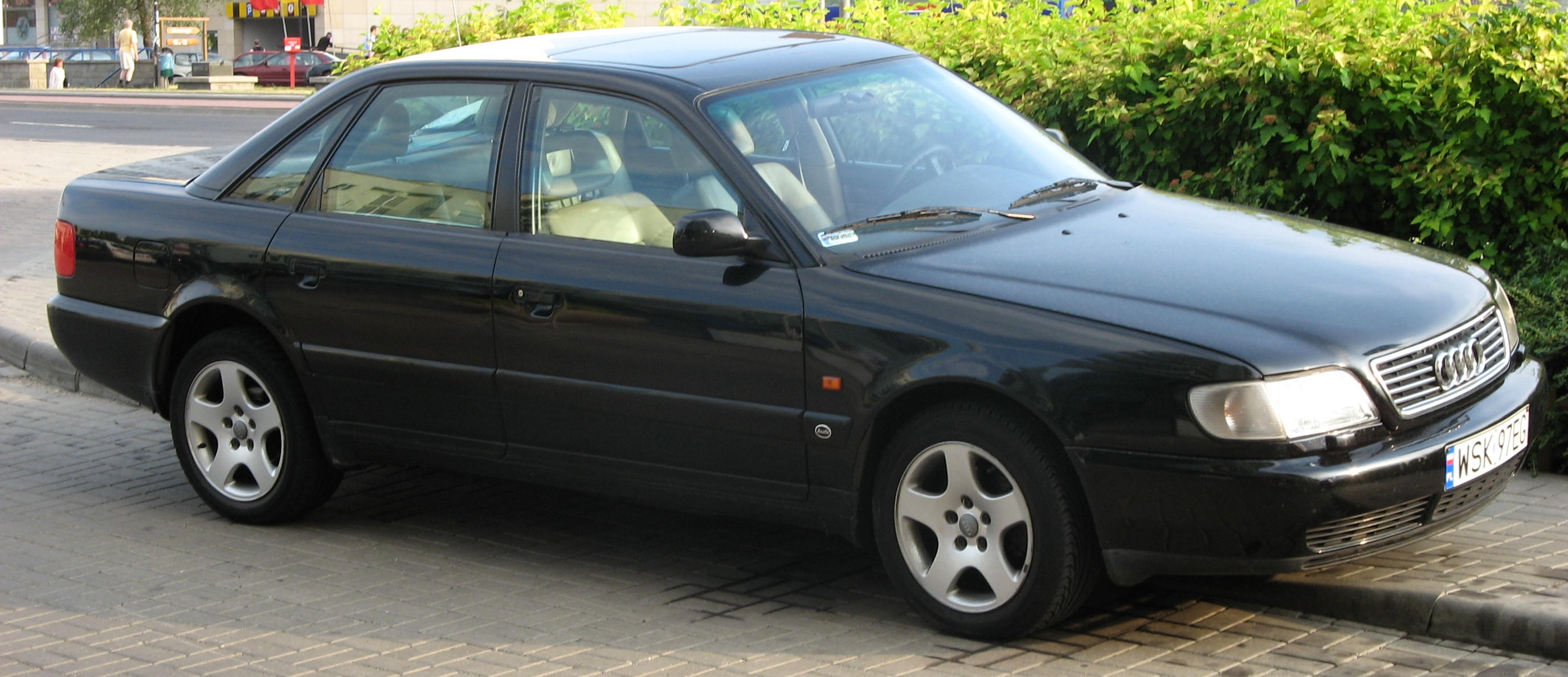 Audi A6 sedan (C4), black, photographed in Warsaw